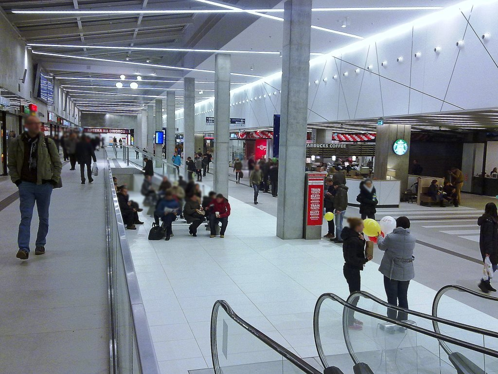 Katowice railway station